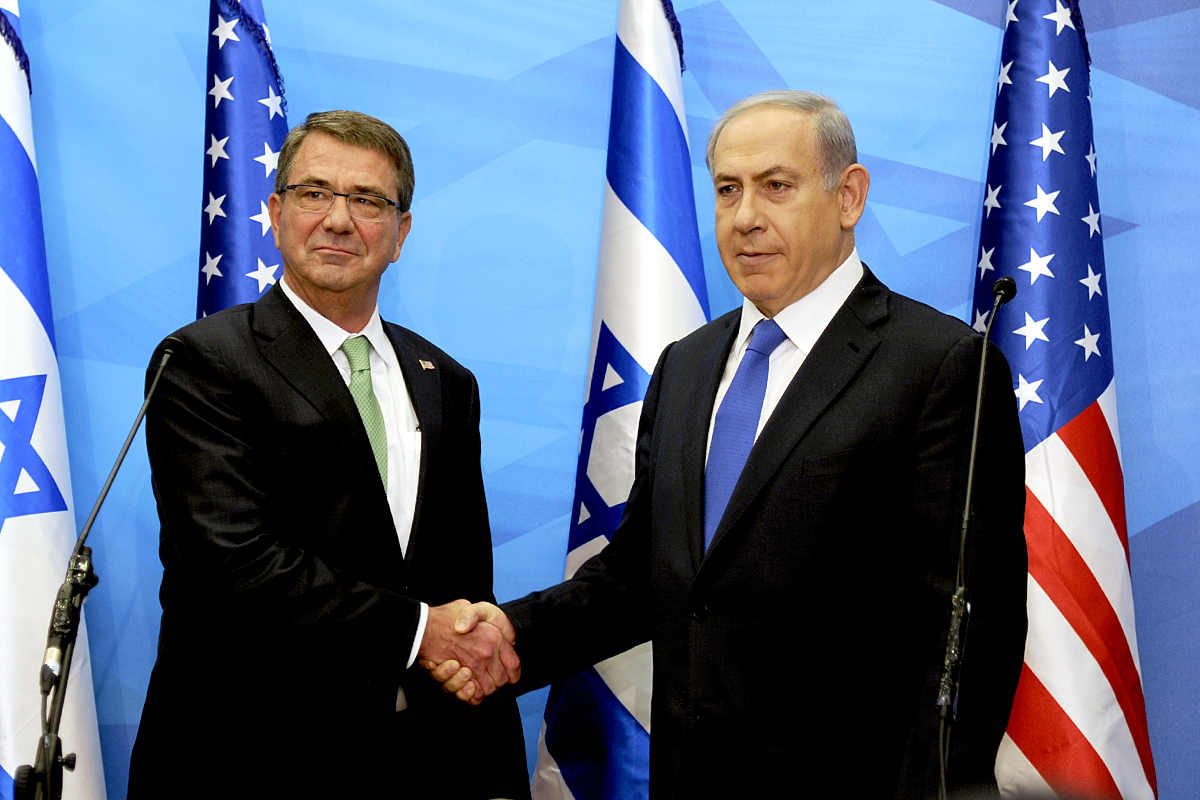 Secretary of Defense Ashton Carter visit to Israel. July 19-21, 2015